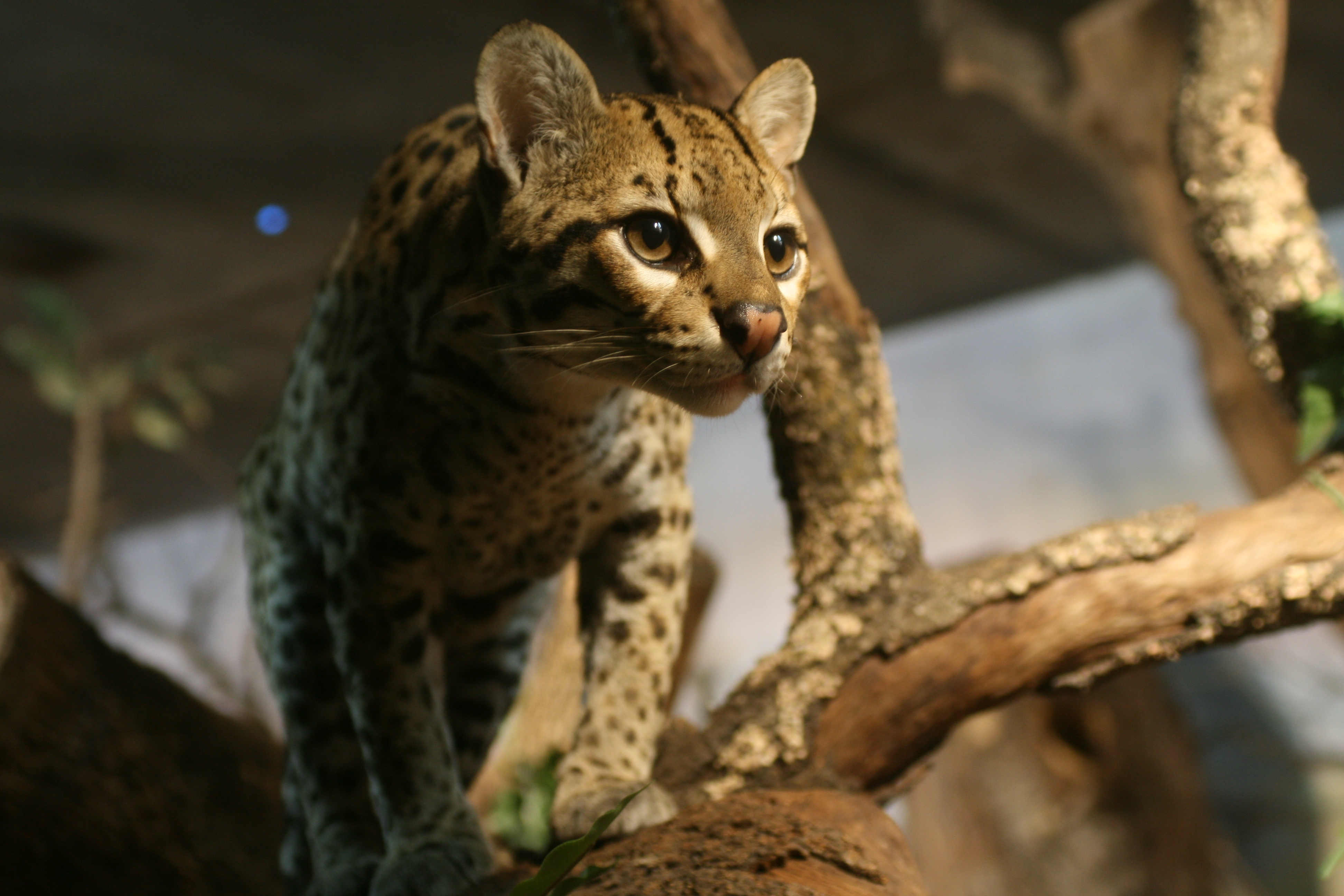 Ocelot in Faunia